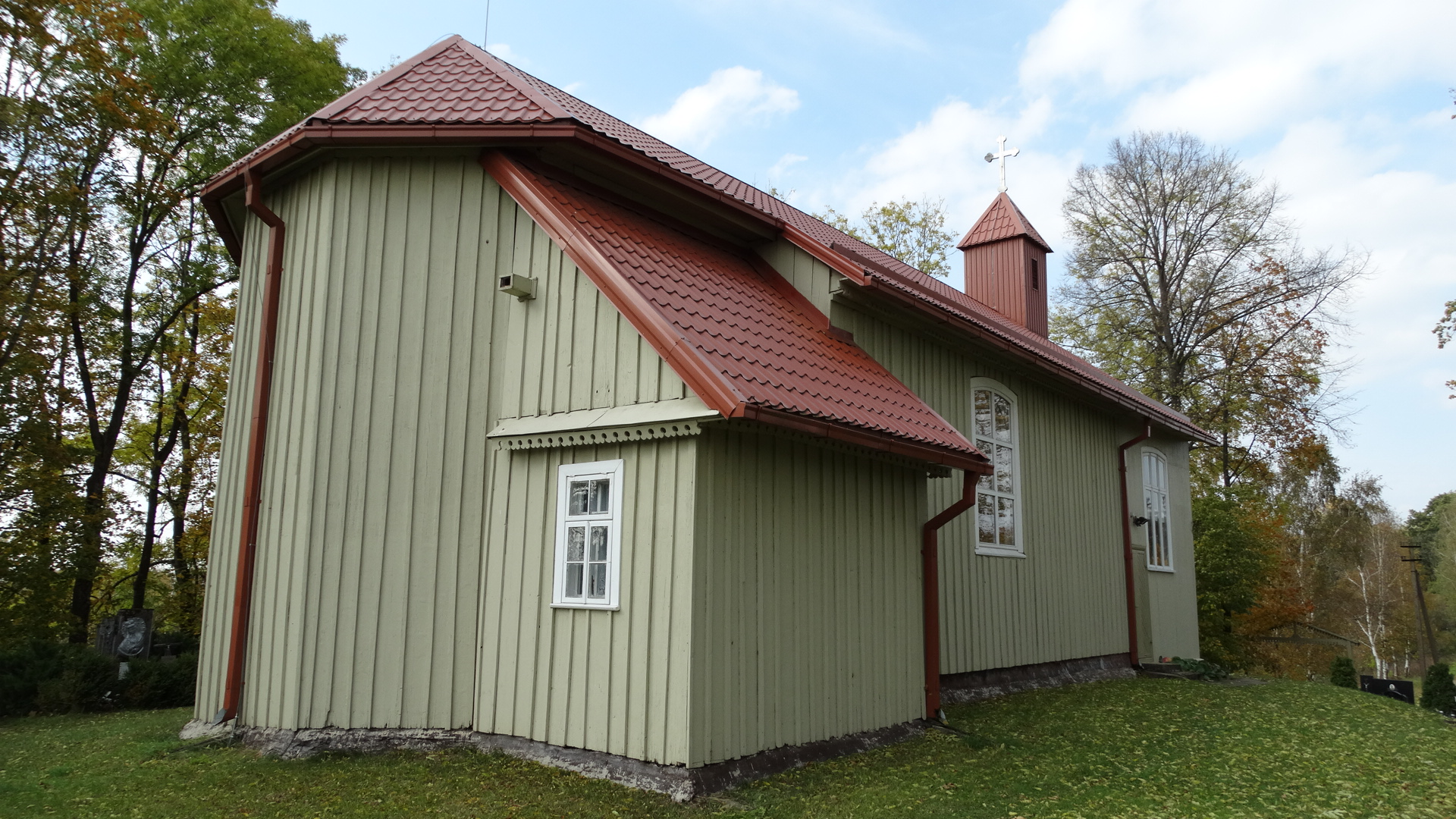 Roman Catholic Church of Saint Trinity, Riečiai, Marijampolė district, Lithuania